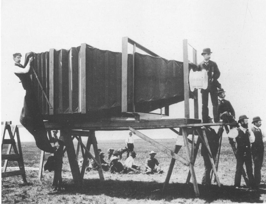 A very large camera designed by George R. Lawrence (1868-1938) and used to photograph a train of the Chicago & Alton railroad on the Chicago-St. Louis line for the 1900 Paris Exhibition. - After the French Consul General had inspected the camera and enormous glass plate, Lawrence was awarded the Grand Prize of the World for Photographic Excellence at the Paris Exposition of 1900 for his 8 x 4 1/2 foot photograph of the Alton Limited train, promoted as The Largest Photograph in the World of the Handsomest Train in the World.[1]